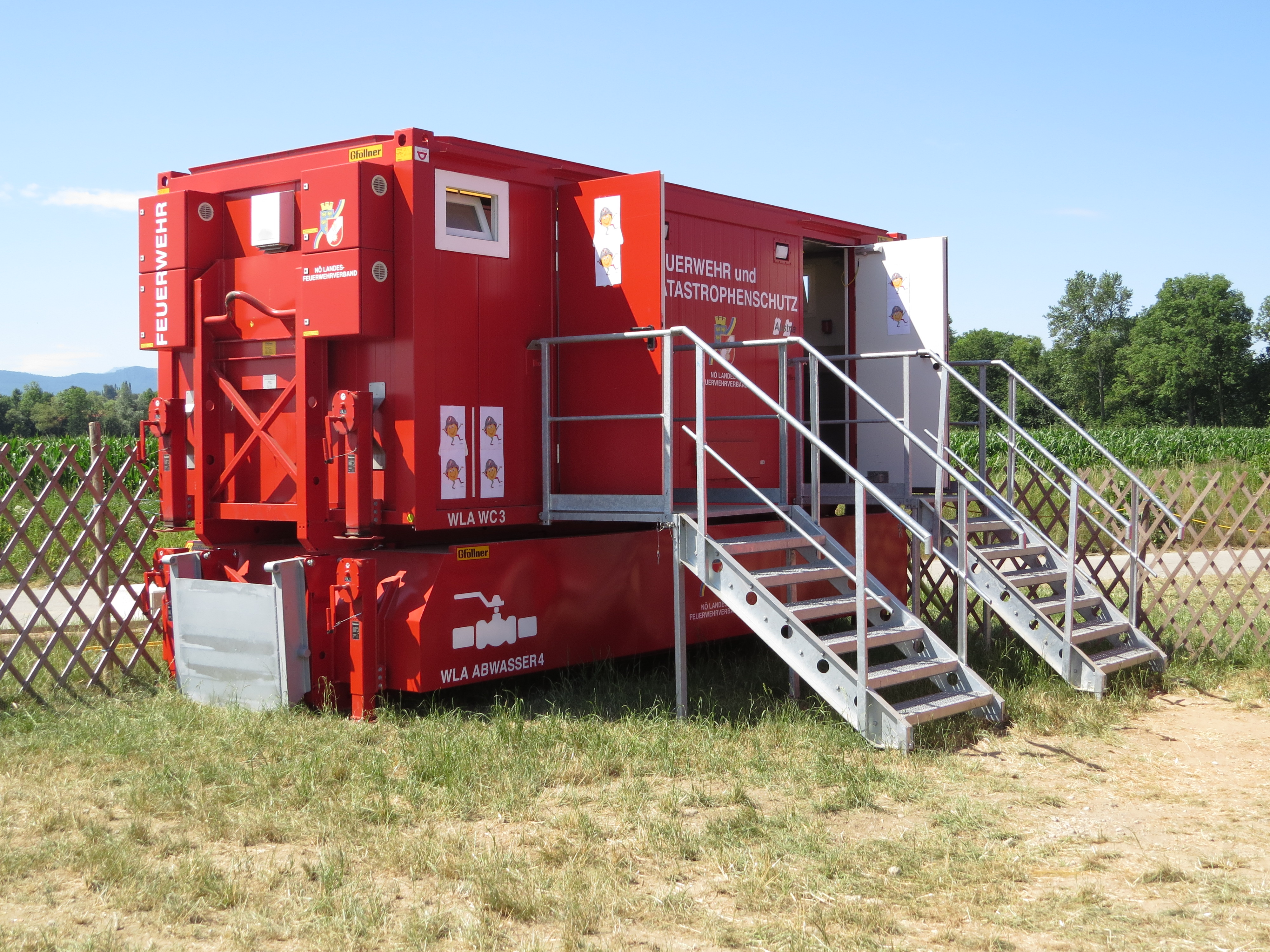 WLA WC 3 from Lower Austria fire fighting and civil protection at 47. Meeting of the Lower Austrian Fire Brigade Youth 2019 in Mank, Austria